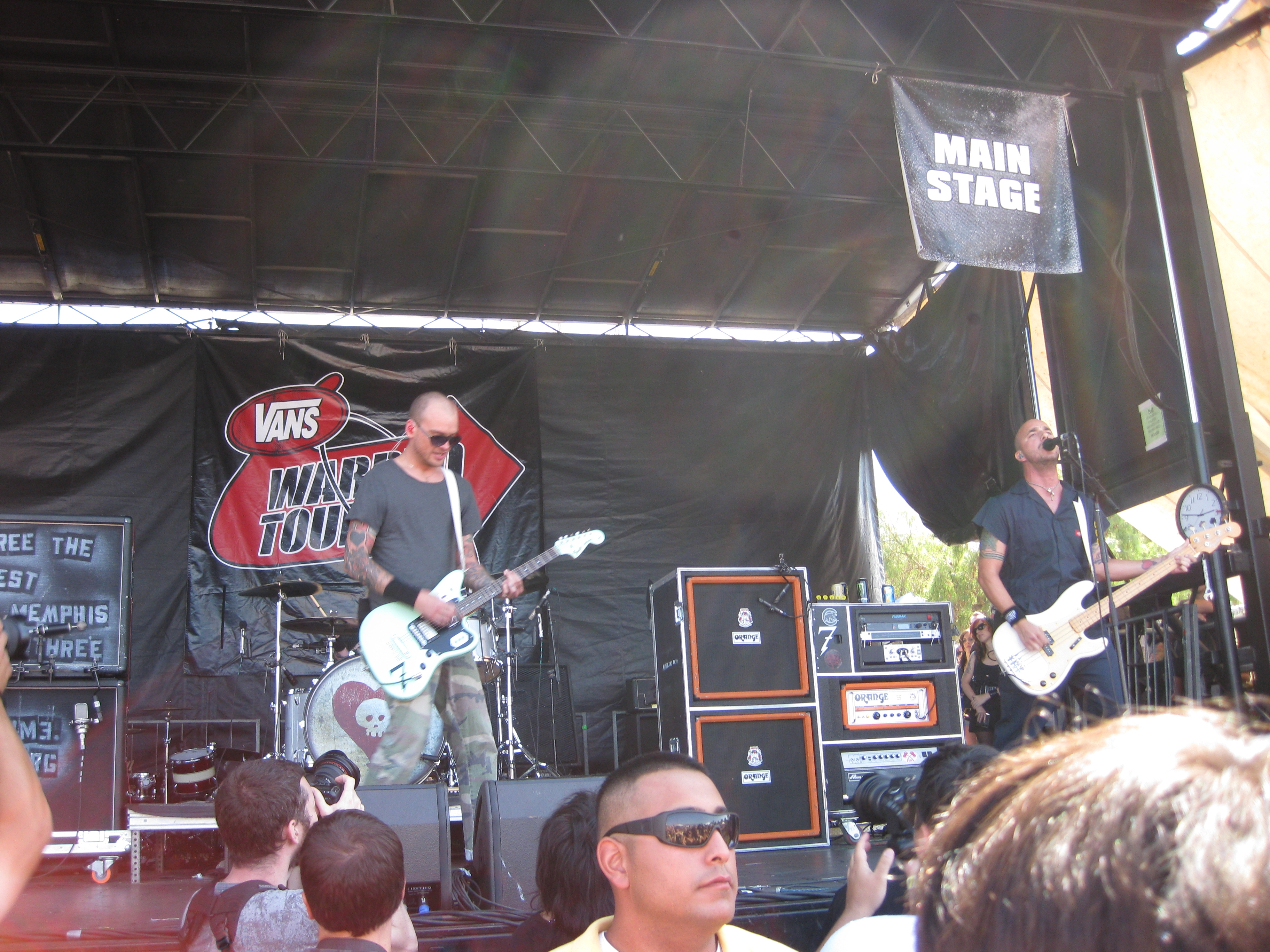 Alkaline Trio performing on the Warped Tour at the Cricket Wireless Amphitheatre in Chula Vista, California on August 10, 2010. Showing Matt Skiba (left) and Dan Andriano (right).